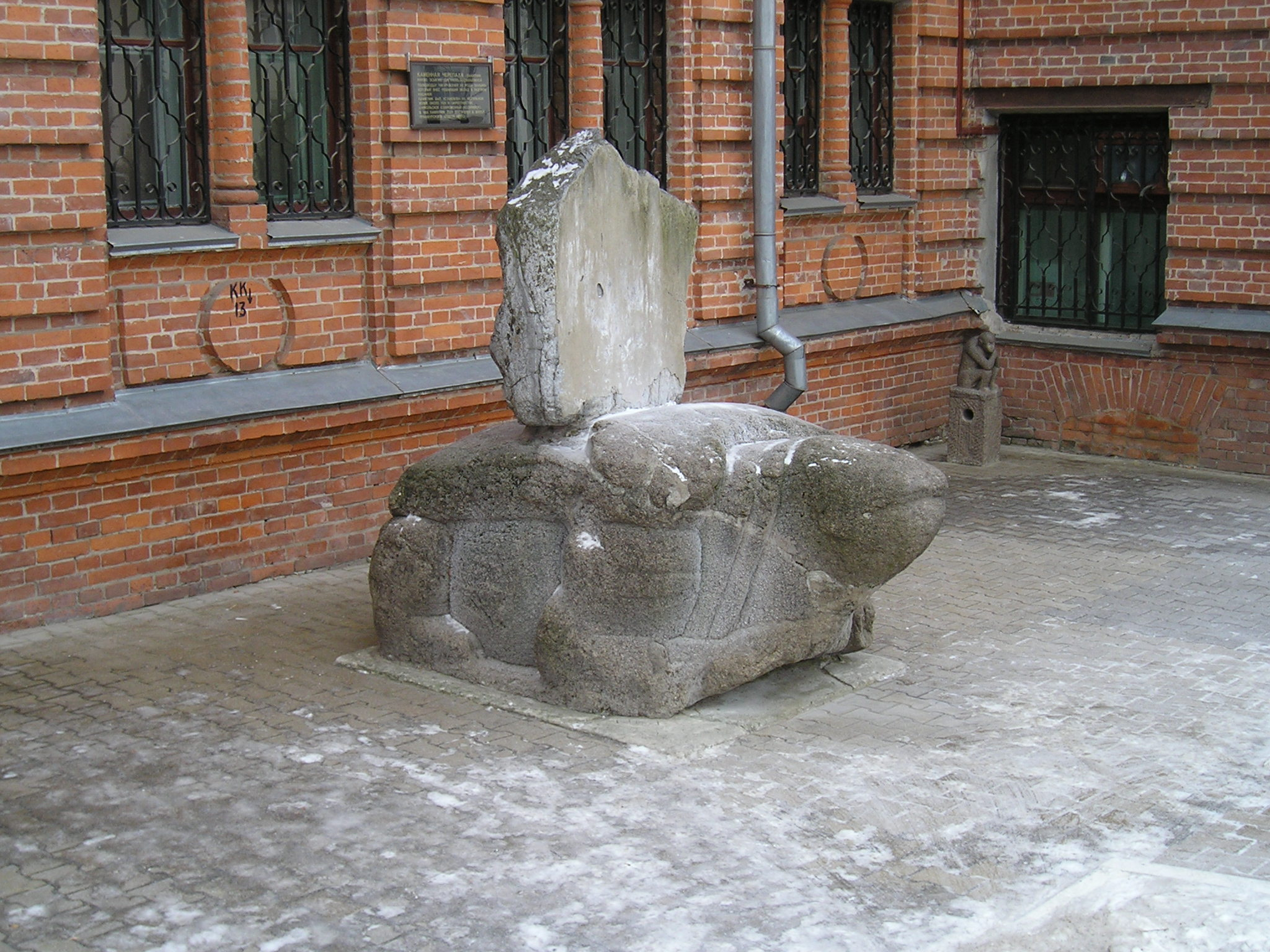 A stone tortoise near Khabarovsk territorial museum of regional studies after N. I. Grodekov. It was found by early Russian settlers in 1868 near Nikol'skoe (Ussuriysk).